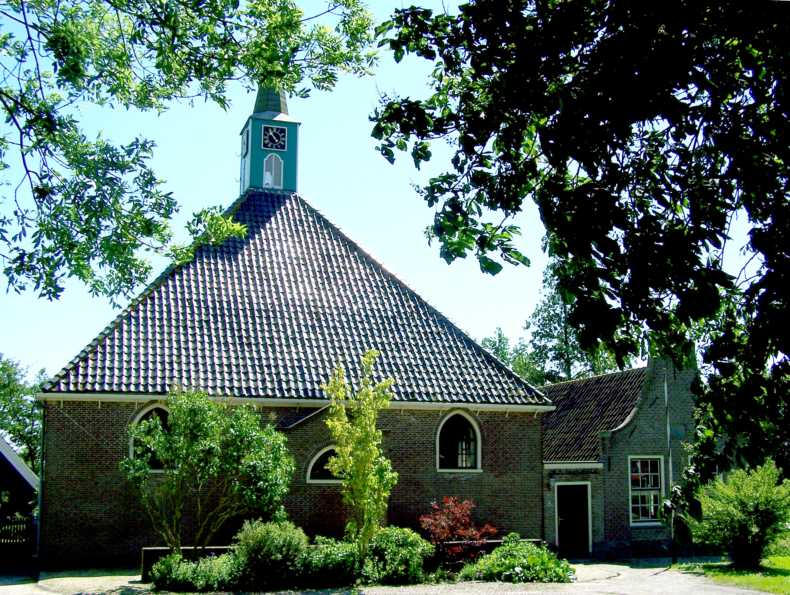 "Het Zwarte Kerkje" from 1663 in Zuidschermer. A so-called farmchurch.